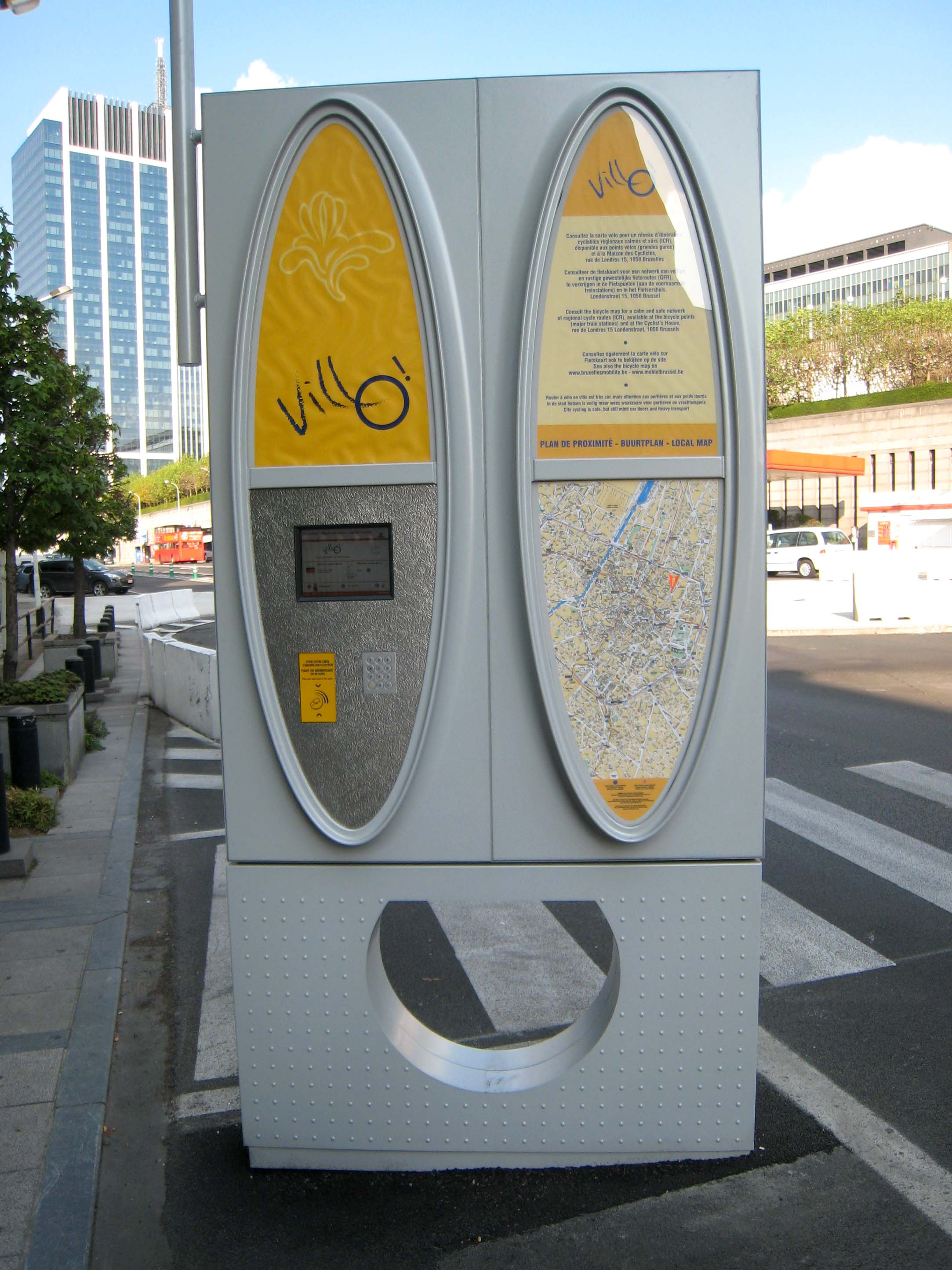 Villo station terminal, with map of local area indicating Villo points